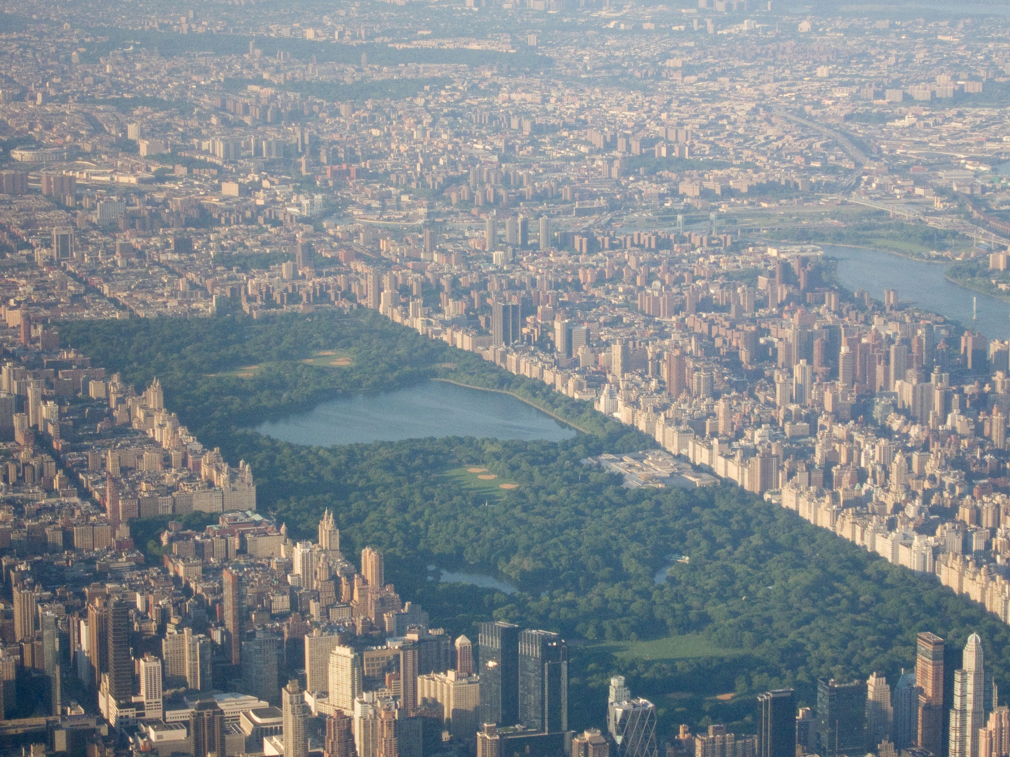 An aerial view of Central Park, New York City